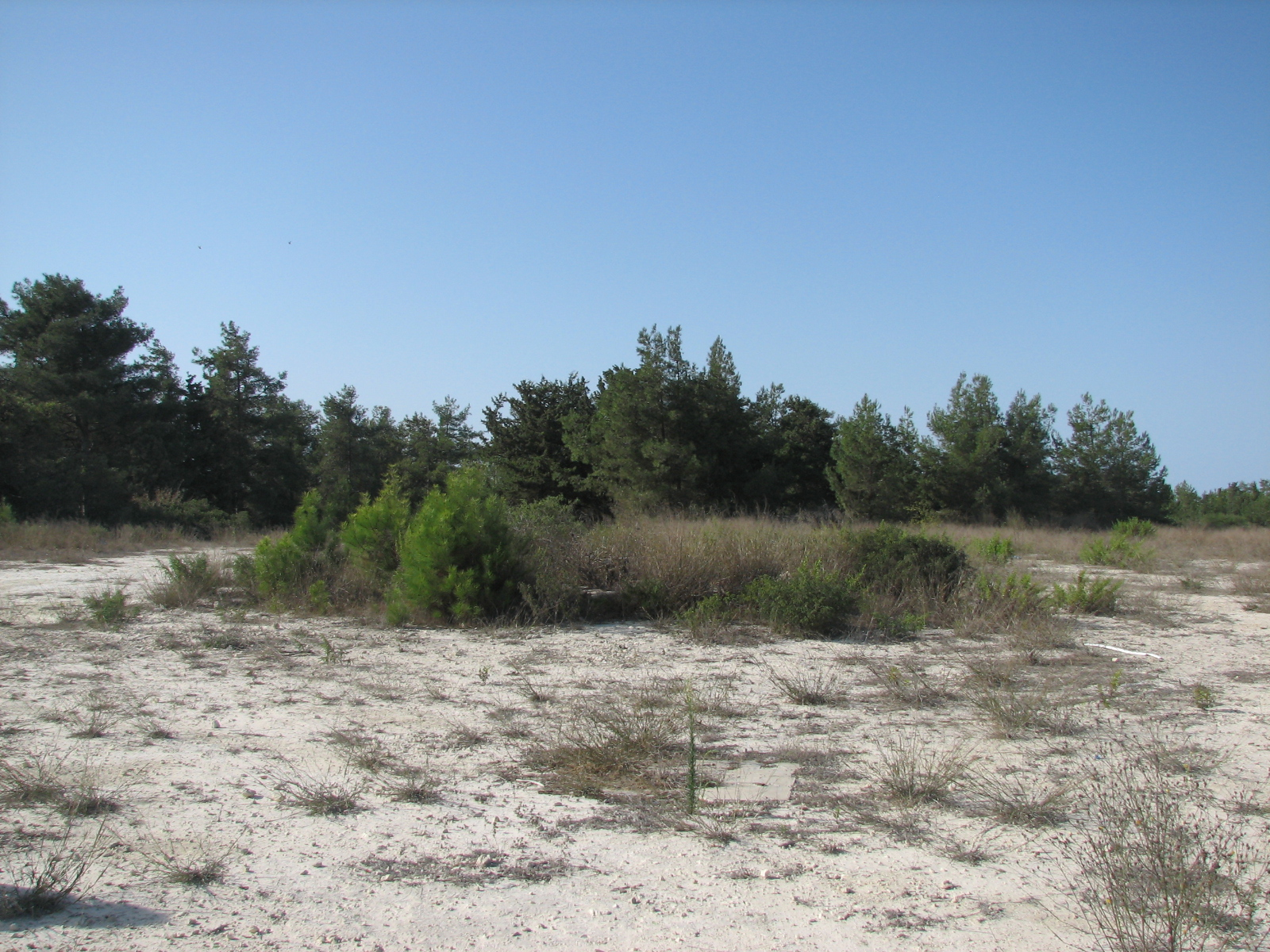 Rom Carmel, The highest Peak in Mount Carmel 546 m near Isfiya